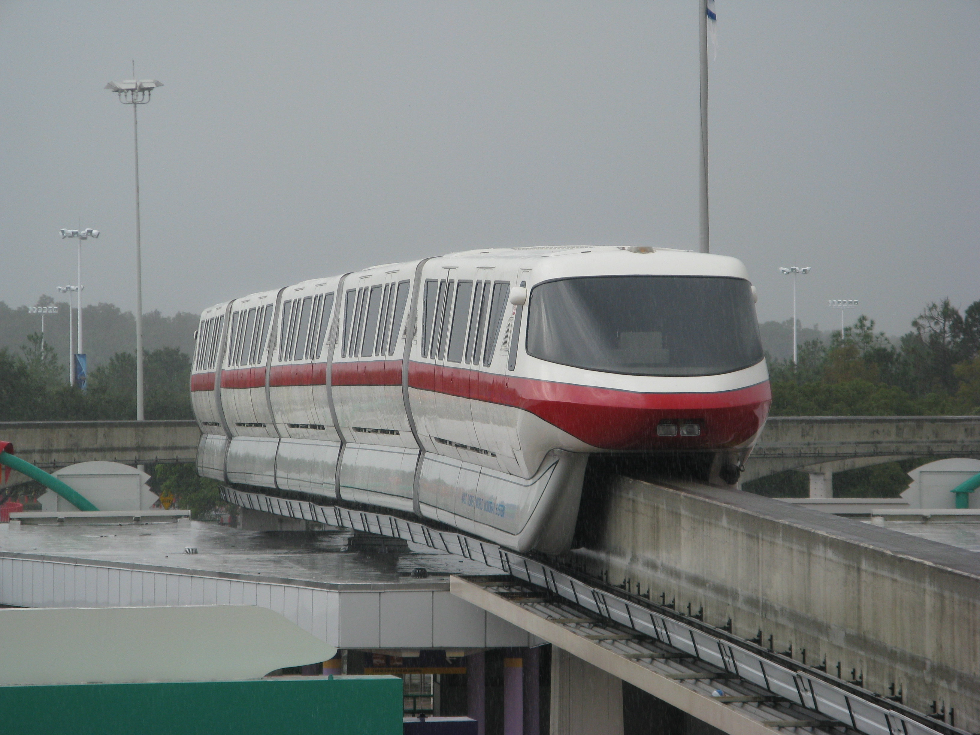 Monorail at Walt Disney World in Florida Monorail Red approaching the station